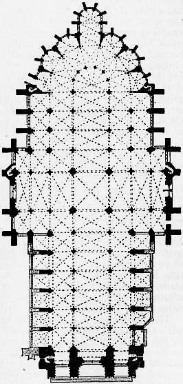 Plan of Cathedral at Amiens.Illustration from 1911 Encyclopædia Britannica, article Architecture.